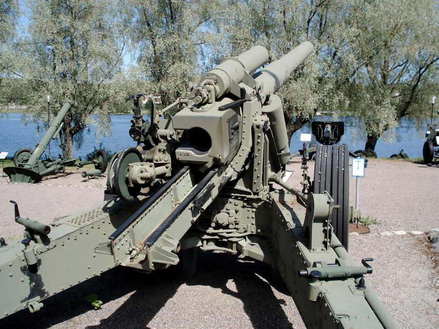 German Heavy 15 cm Feldhaubize 18, in production from 1935 to 1945, displayed in Hämeenlinna Artillery Museum. This howitzer was one of the mainstays of German artillery during World War II. Photo taken on June 18, 2006. Source: Photo by me, User:Balcer.